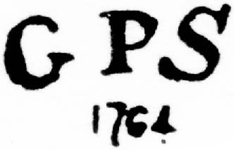 De porceleyne Schotel, Delft, mark. Formerly known as Gekroonde Porseleine Schotel